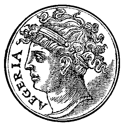 Egeria was a water nymph in Roman mythology. She was most famously the second wife and counselor of the second king of Rome, Numa Pompilius.